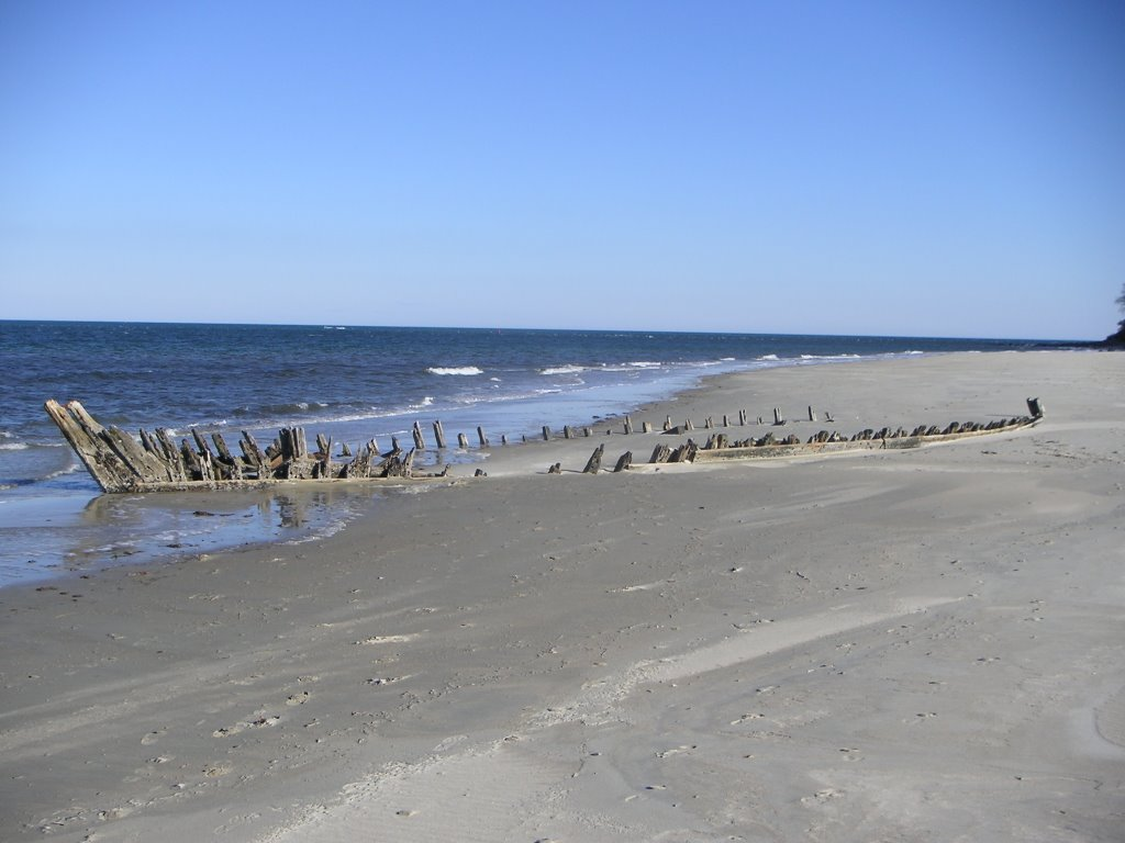 The shipwrecked Ada K. Damon on Cranes Beach, Ipswich